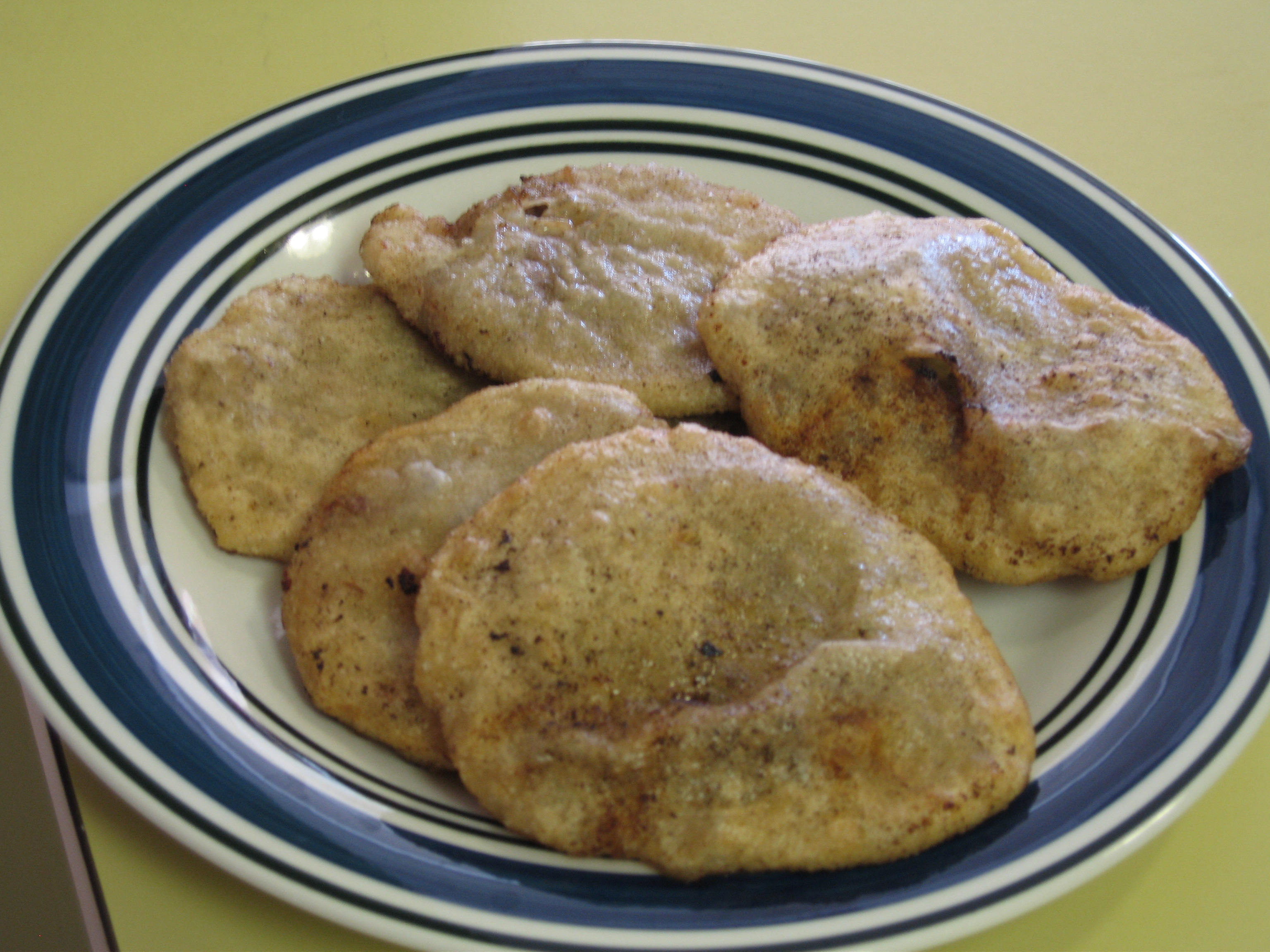 Khuushuur, a meat pastry popular in Mongolia.